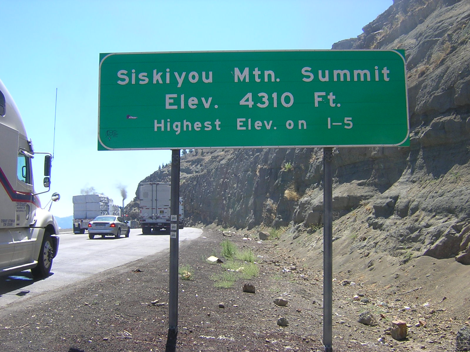 Taken on August 4, 2007 on Interstate 5, this is the Siskiyou Mountain Summit. Elevation is 4,310 feet. The Siskiyou Mountains are a sub-range within the Klamath Mountains System.